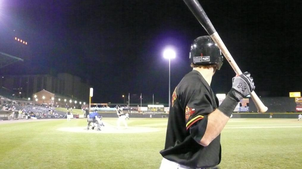 Trevor Plouffe 2009 02:31, 30 July 2009 . . Phil5329 . . 1,015×569 (63 KB)